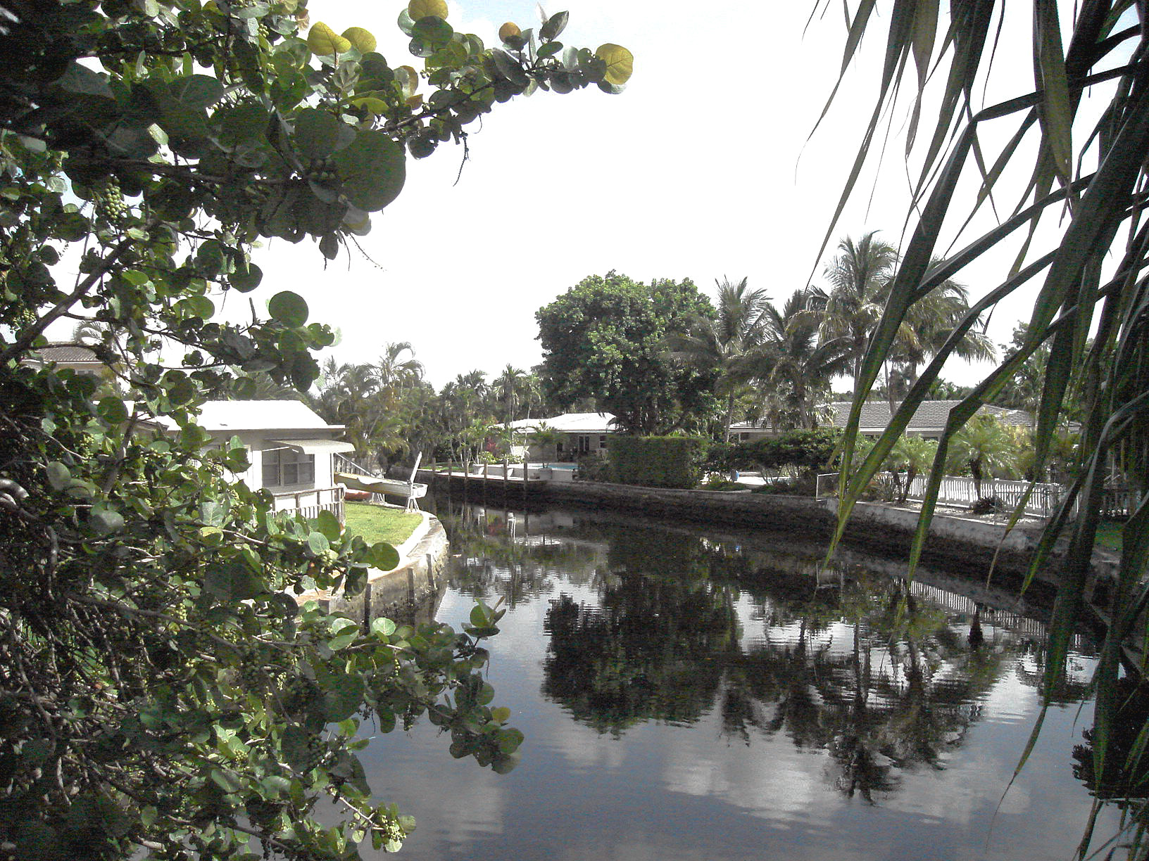 Oakland Park, FL - Waterways through residential neighbourhood